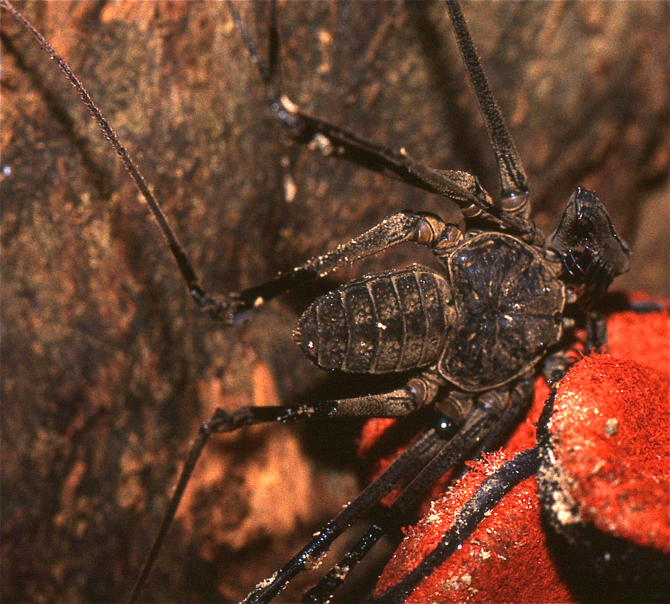 Santa Rosa NP, Cañas, COSTA RICA Scanned Slide from January 1997